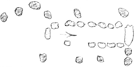 Outline of the dolmen Diesdorf 2, Saxony-Anhalt